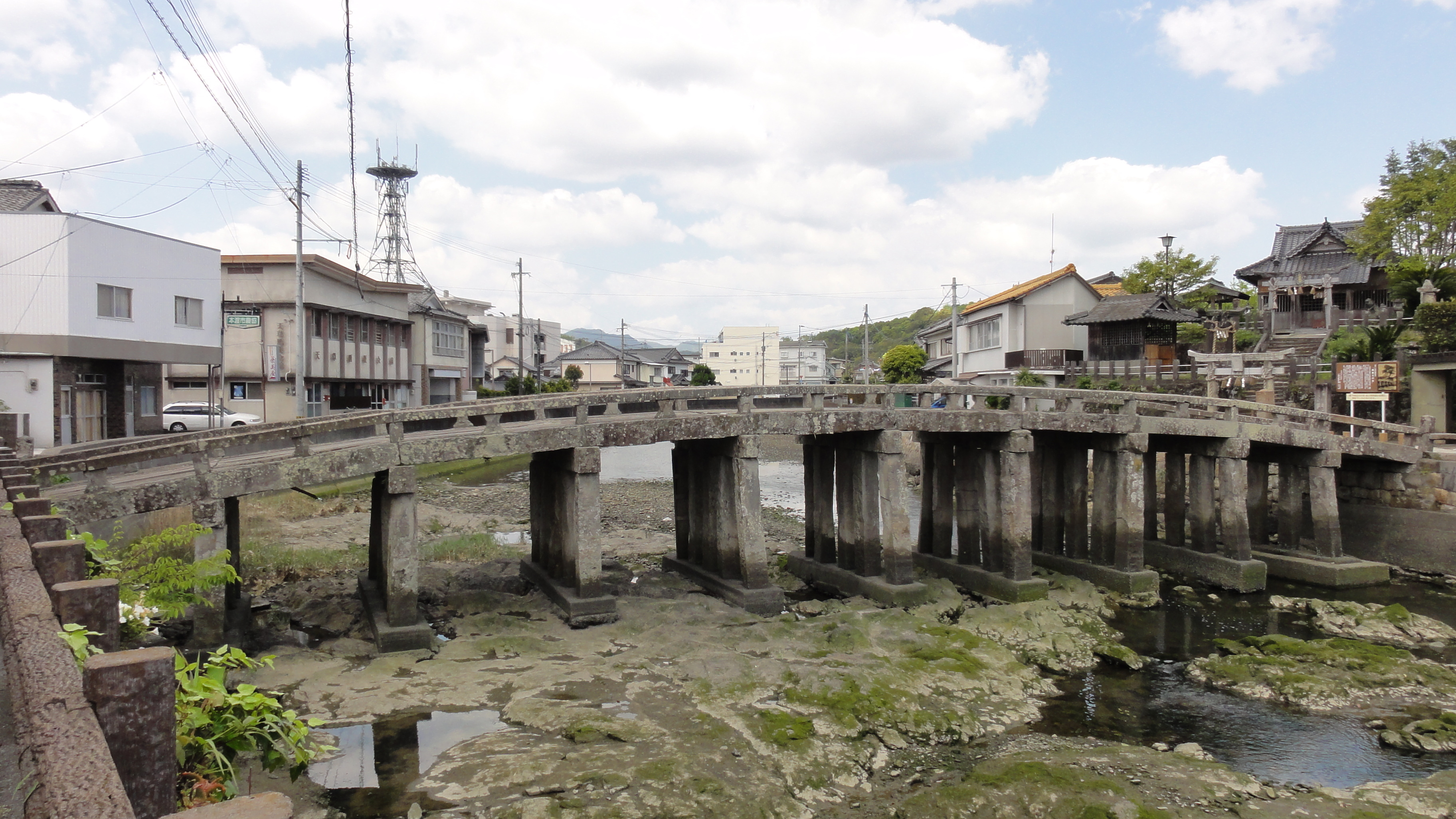 Gion-bashi bridge Kumamoto Pref., Japan